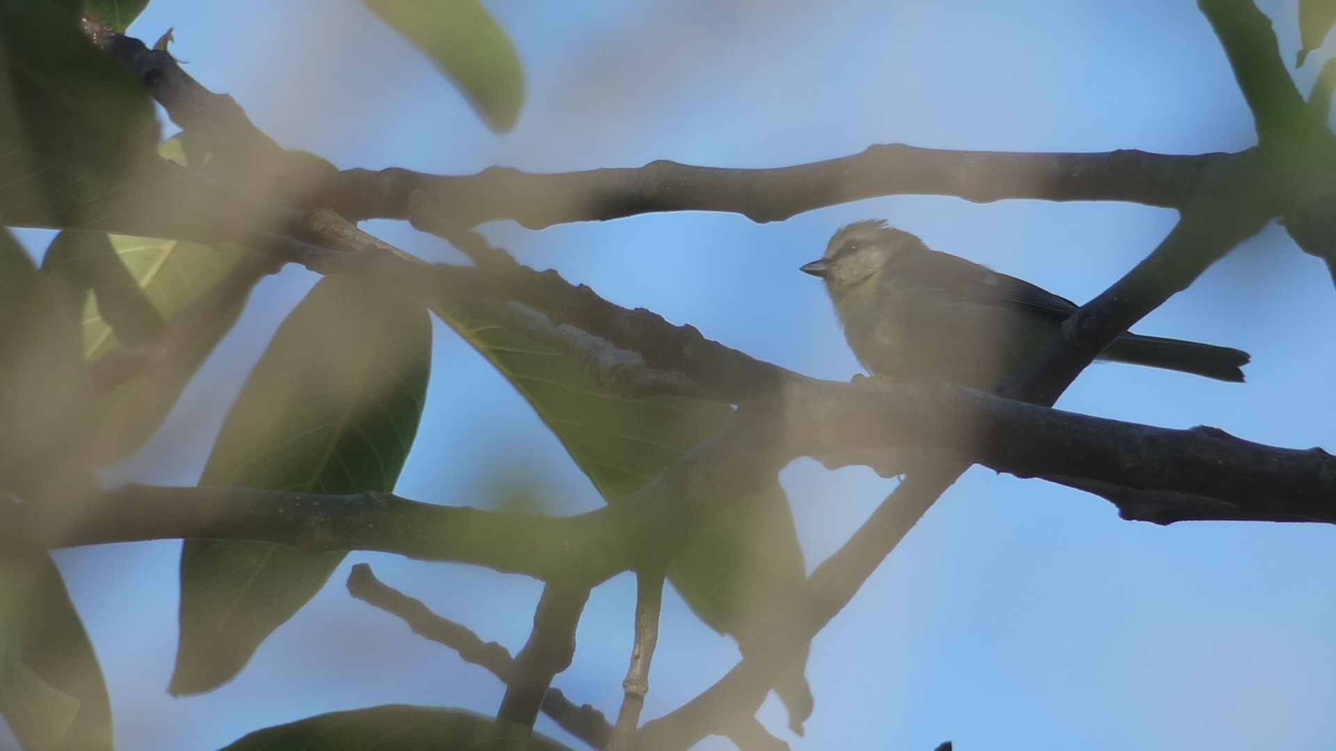 Eurasian blue tit (Cyanistes caeruleus) on a walnut tree.